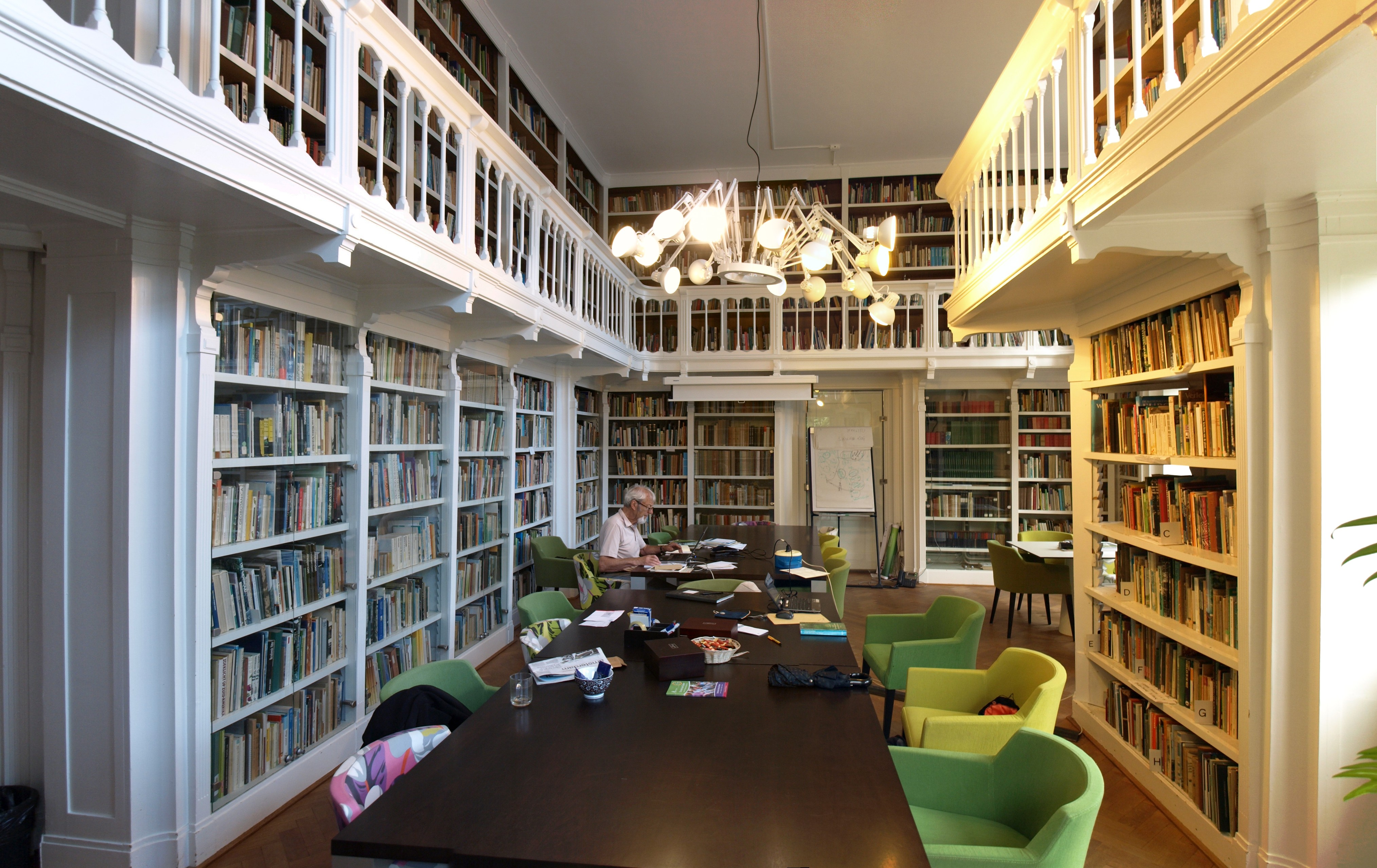 library of Heimans and Thijsse Foundation, Amsterdam Nl.